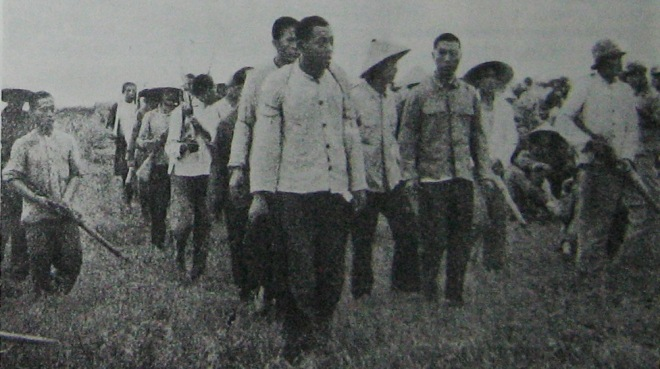 POWs captived by Chinese Communist troops in 1946.共产党民兵配合部队俘虏的国民党士兵。